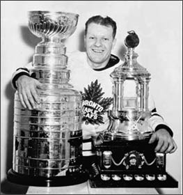 Toronto Maple leafs goaltender following the Leafs' Stanley Cup victory in 1948. Also pictured with his Vezina trophy, which he won the same season.